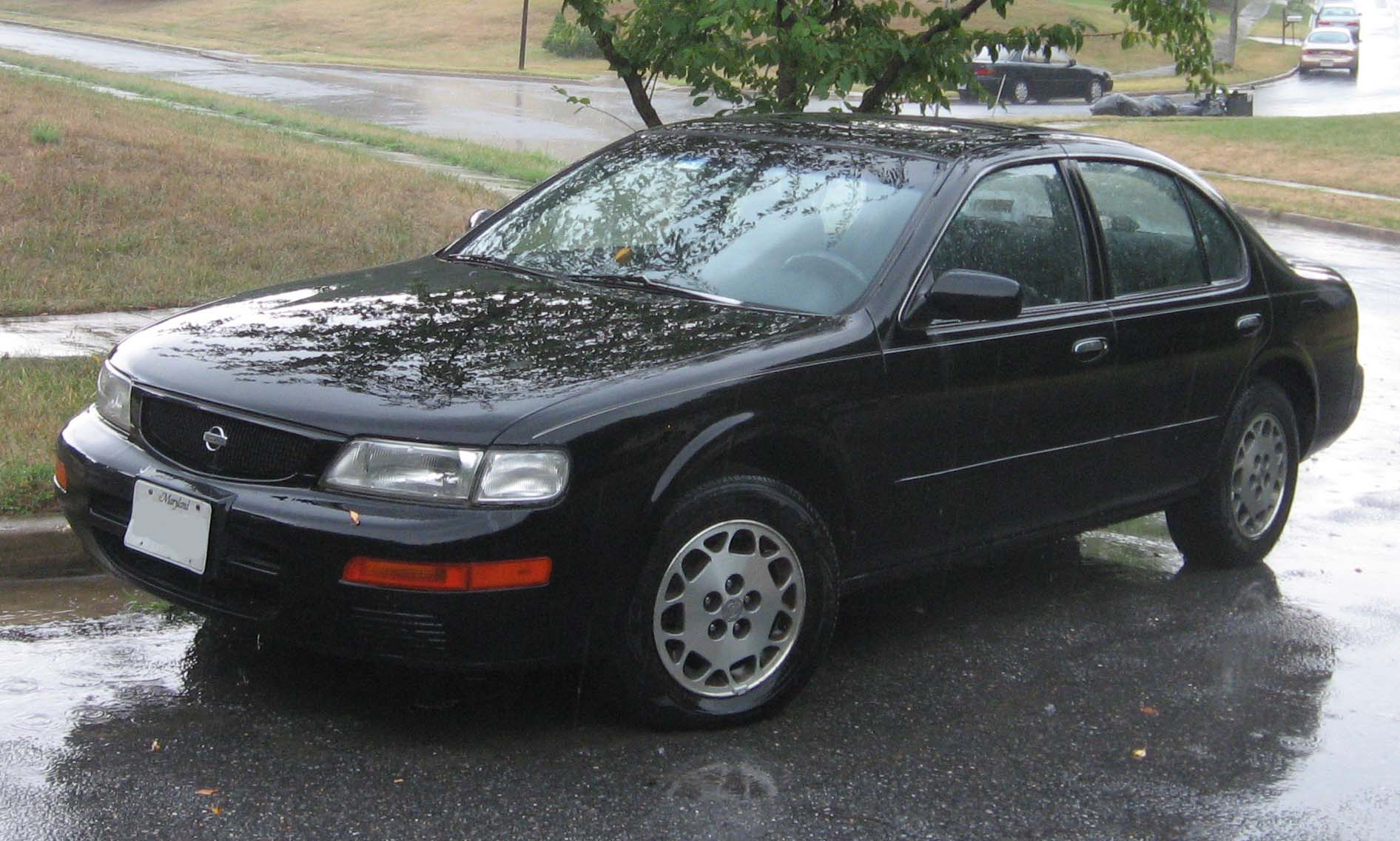 1995-1996 Nissan Maxima photographed in USA.